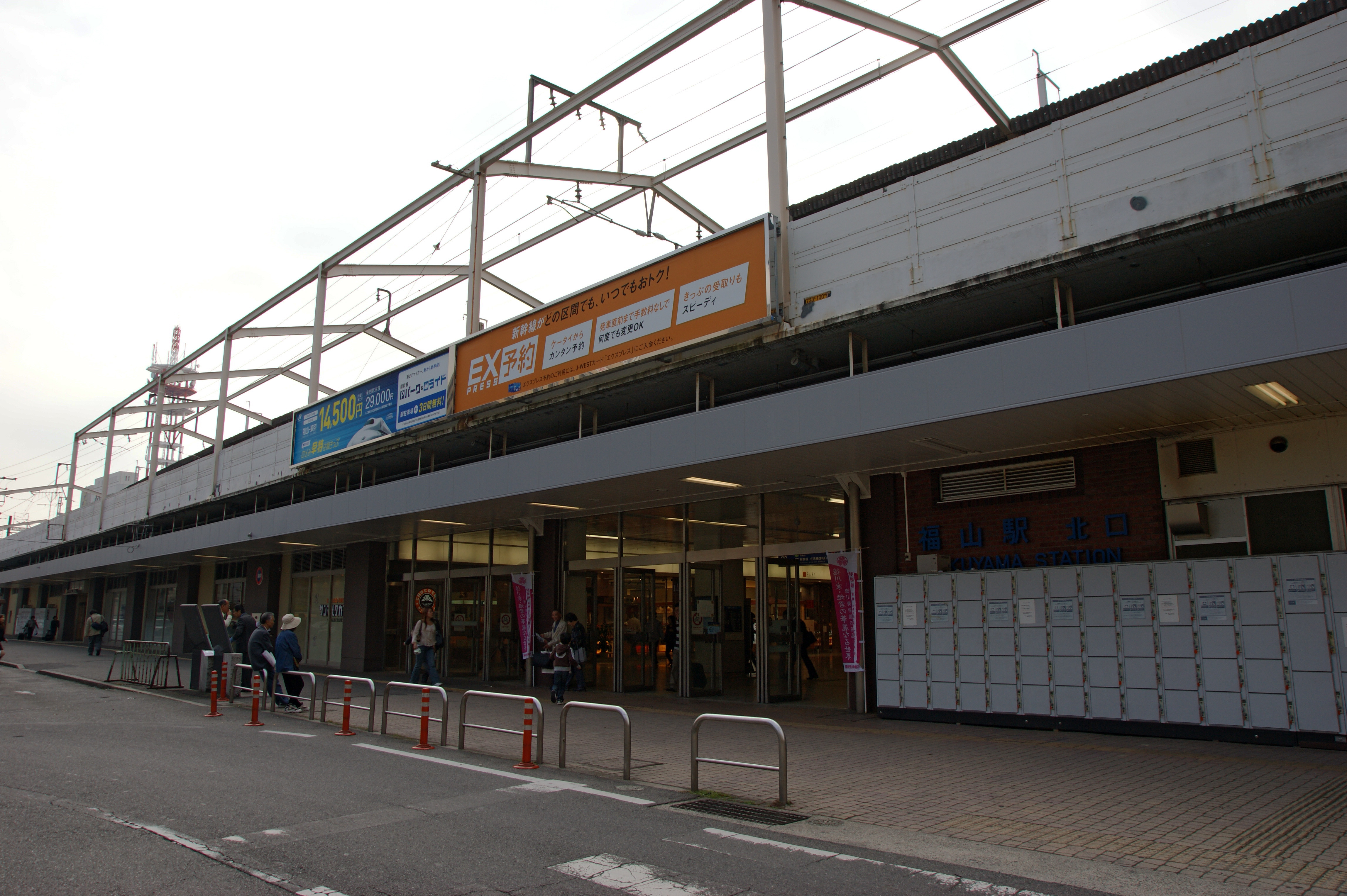 Fukuyama Station, Fukuyama, Hiroshima Prefecture, Japan